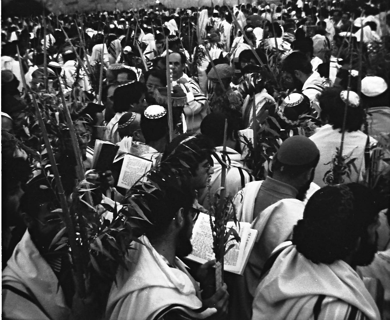 Jerusalem - Jewish holidays - Hoshana Rabbah at the Kotel.